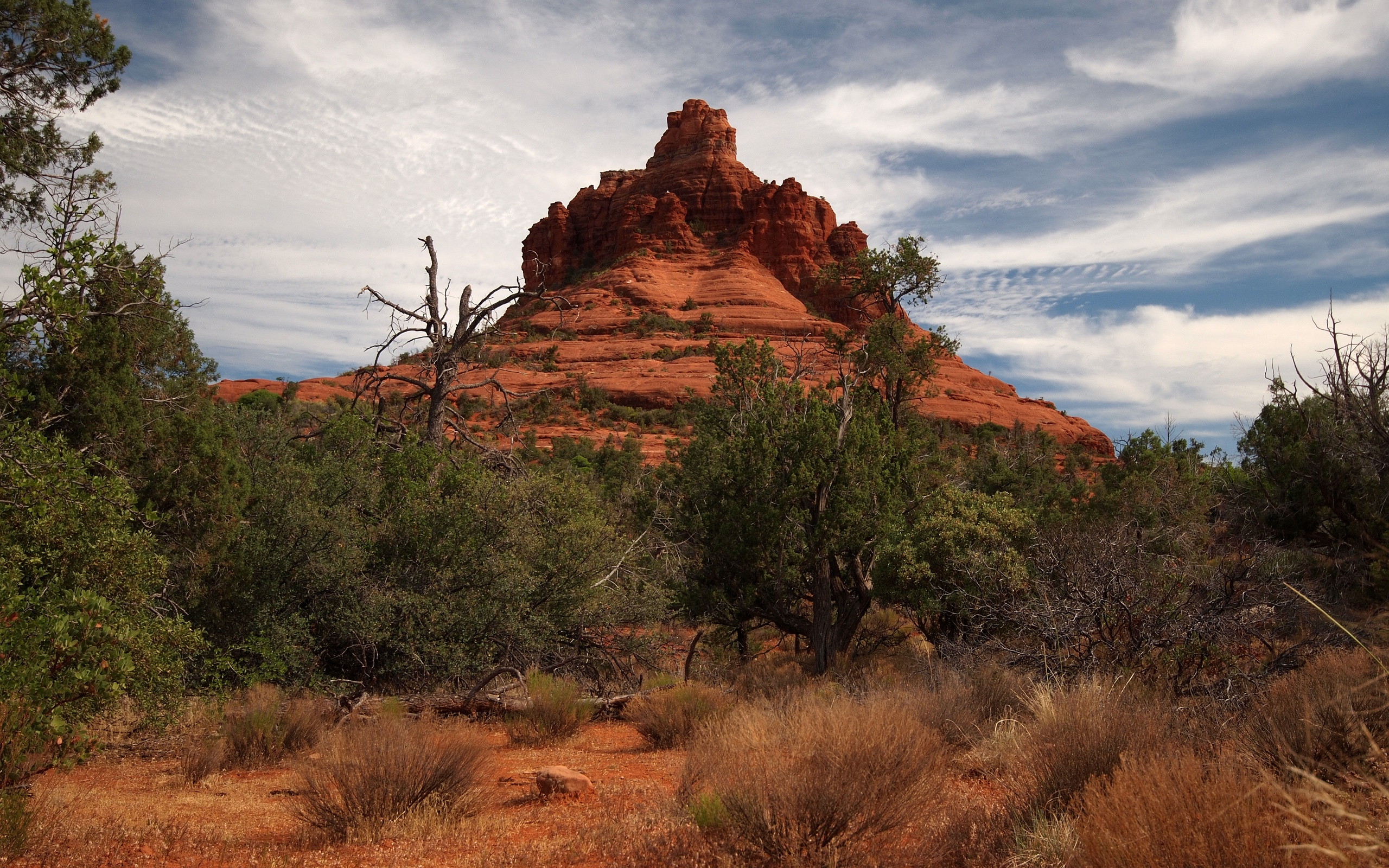 Bell Rock, south of Sedona.Photo taken with an Olympus E-P1 in Coconino County, AZ, USA.Cropping and post-processing performed with The GIMP.